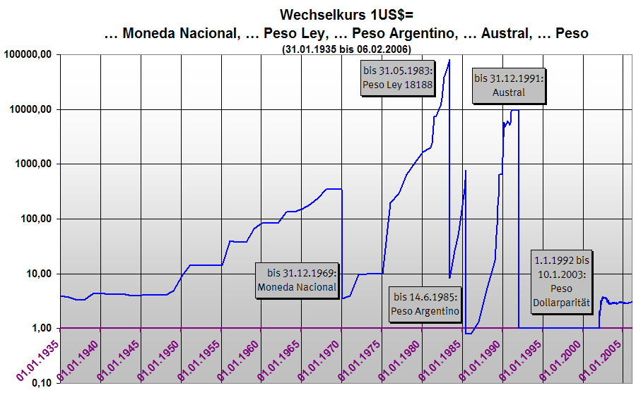 Development of the Exchange of the various Argentine currencies towards the US Dollar starting 31st of January 1935 going until the present date, 6th of February 2006. Entwicklung des Wechselkurses der verschiedenen argentinischen Währungen zum US-Dollar beginnend am 31. Januar 1935 bis heute (6. Februar 2006). Graphic / Graphik: done by myself / selbst erstellt Data / Daten: Argentine Central Bank / Argentinische Zentralbank Version: 1.2 other languages: If you want a copy of this graphic in another language, please contact me on my German discussion page.